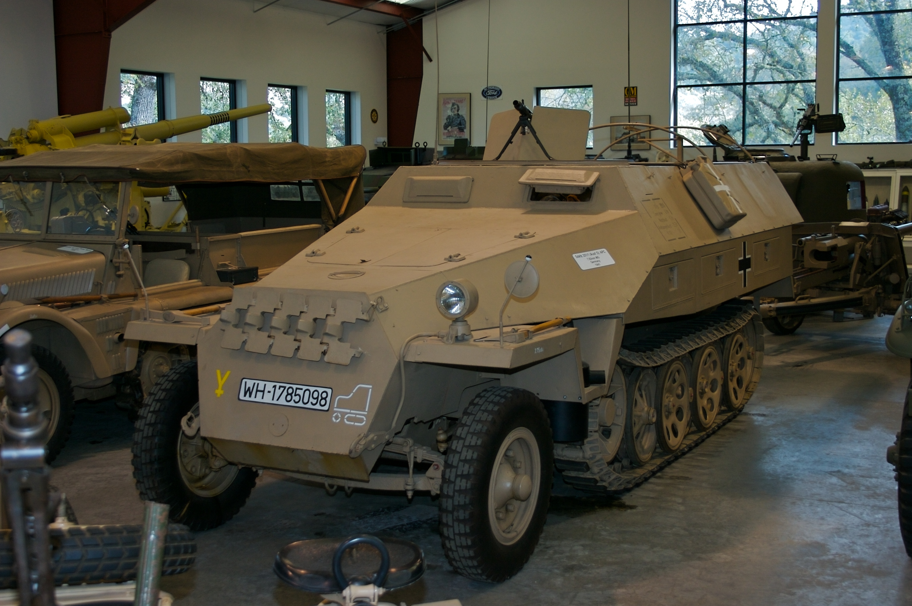 An SdKfz 251 Ausf.D in a private collection.